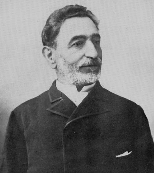 Práxedes Mateo Sagasta, from p. 61 of Photographic History of the Spanish-American War published by Pearson Pub. Co. in 1898.